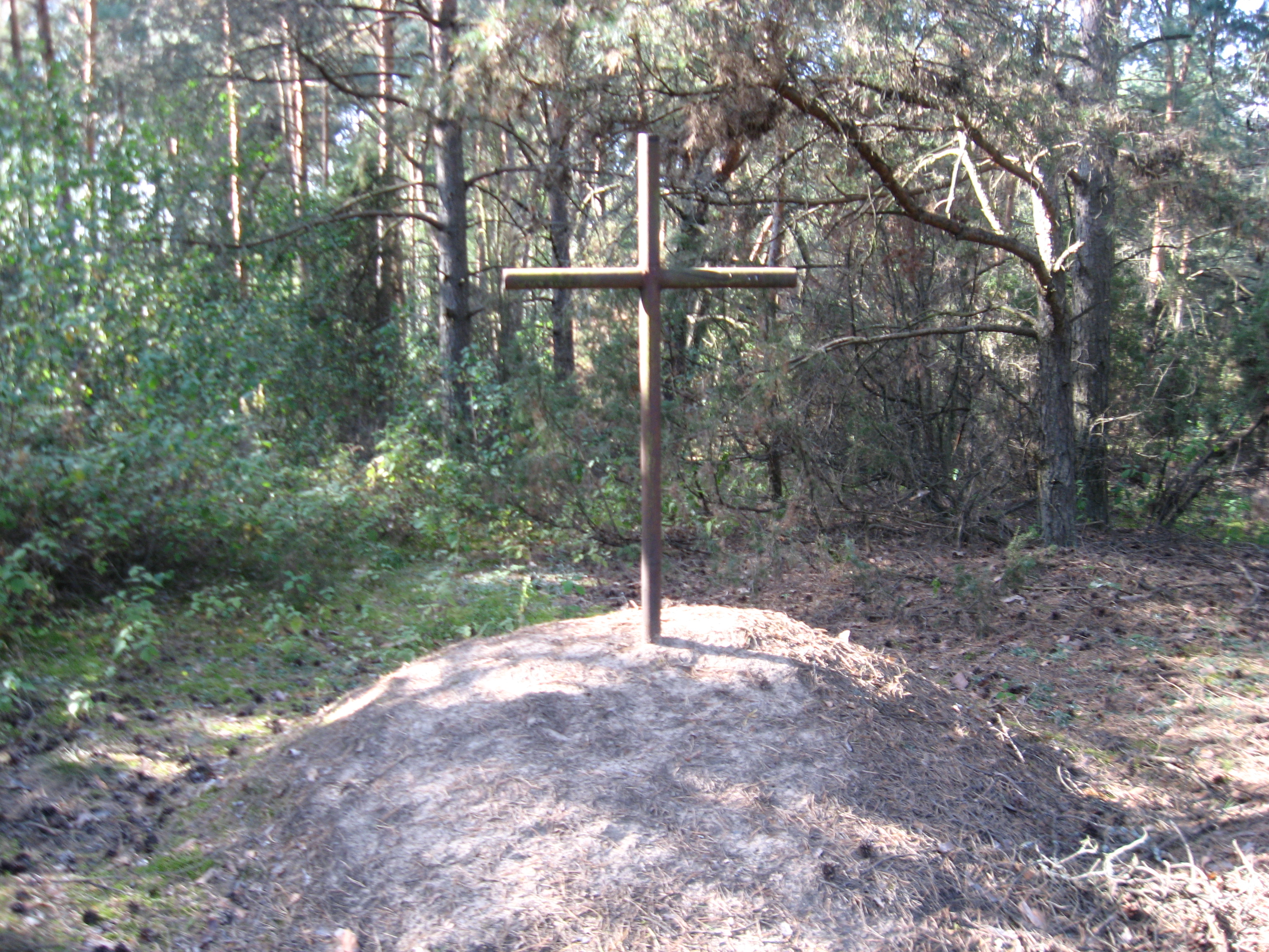 Cross to the prince Mountain near the village of Lyahchitsy